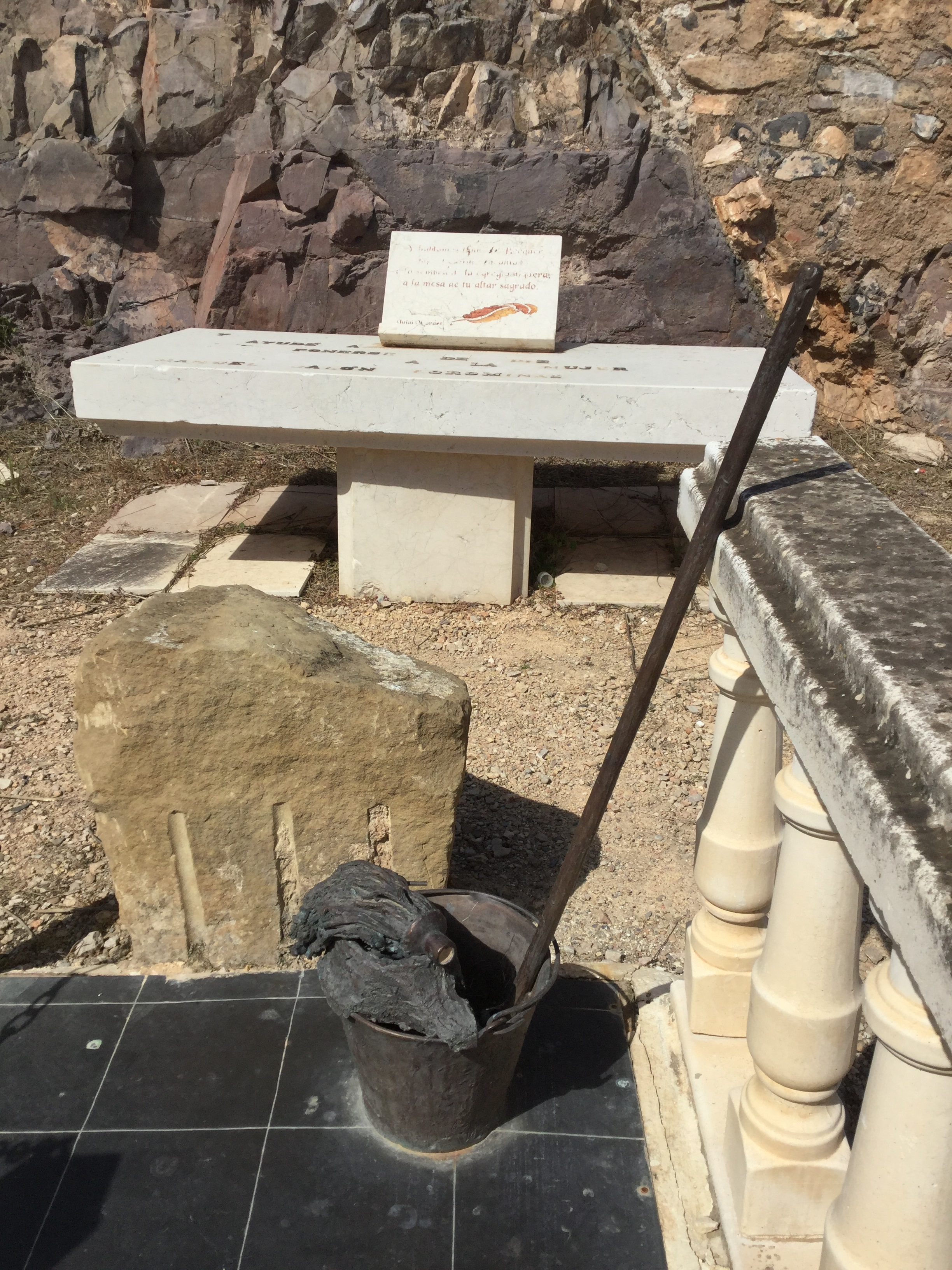 Monumento a la fregona Trasmoz